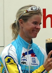 Susanne Ljungskog - Final podium of the Thueringen Rundfahrt 2005